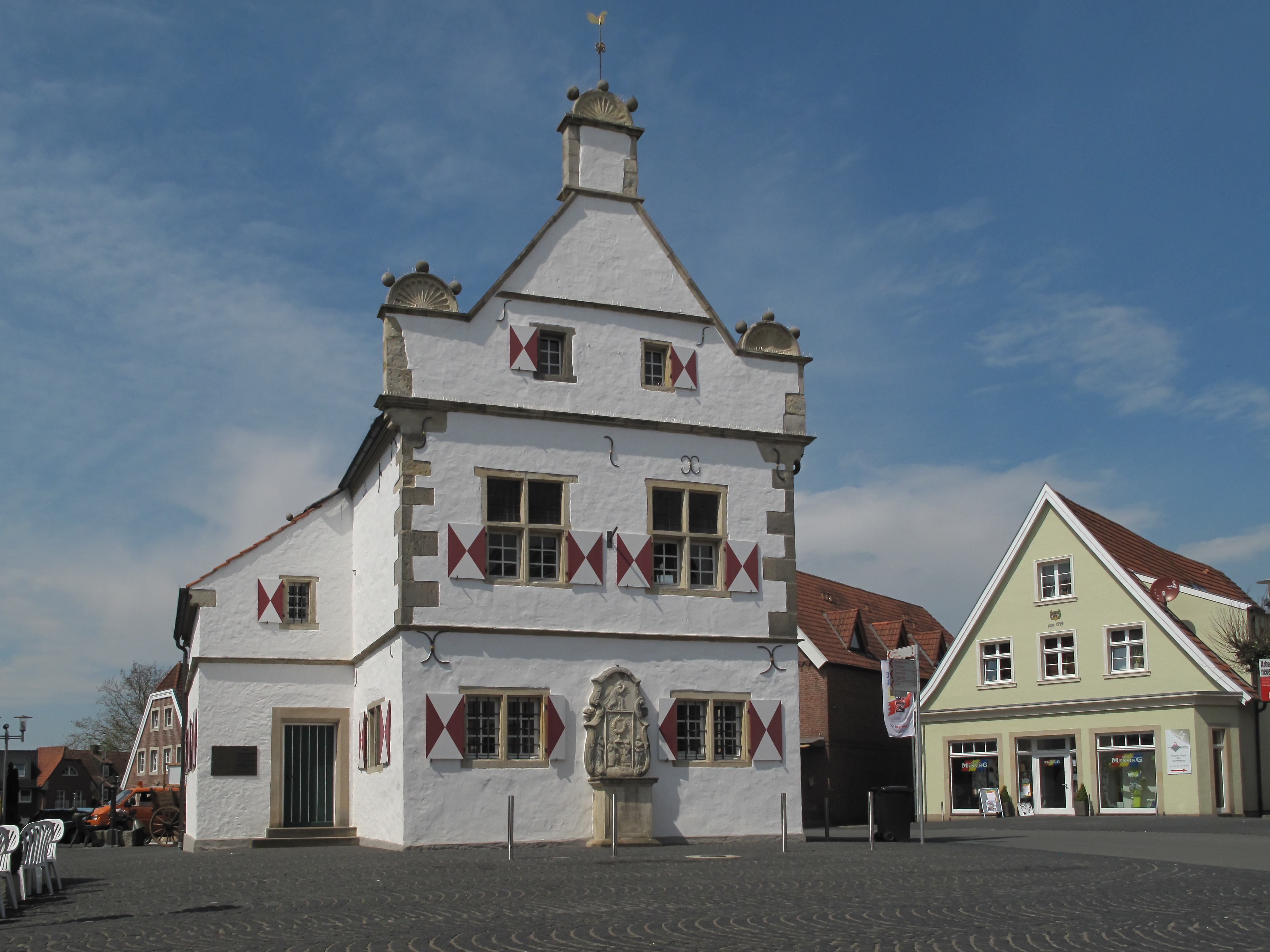 Schöppingen, former townhall: das Alte Rathaus